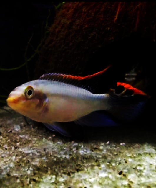 This picture was taken at my breeding facility.